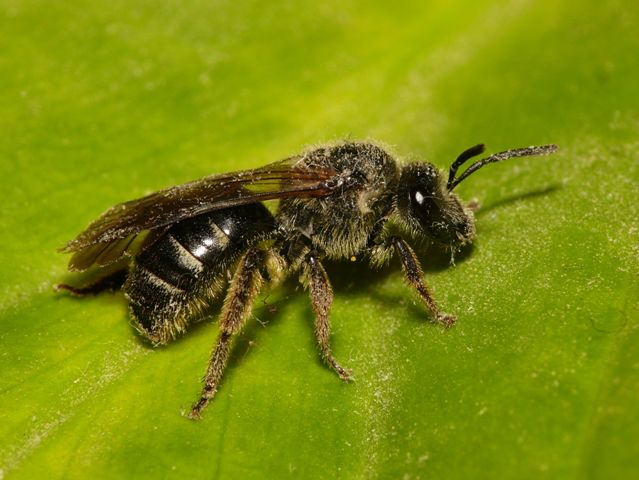 Lasioglossum sexnotatum, female. Location: Rhenen - Blauwe Kamer (The Netherlands)